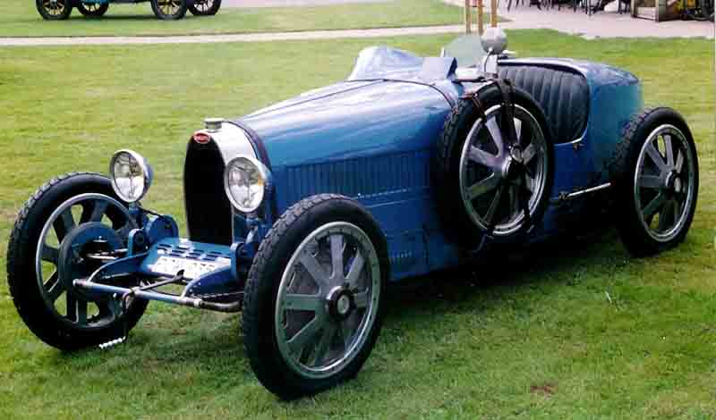 Bugatti Type 35A Grand Prix Racer 1925